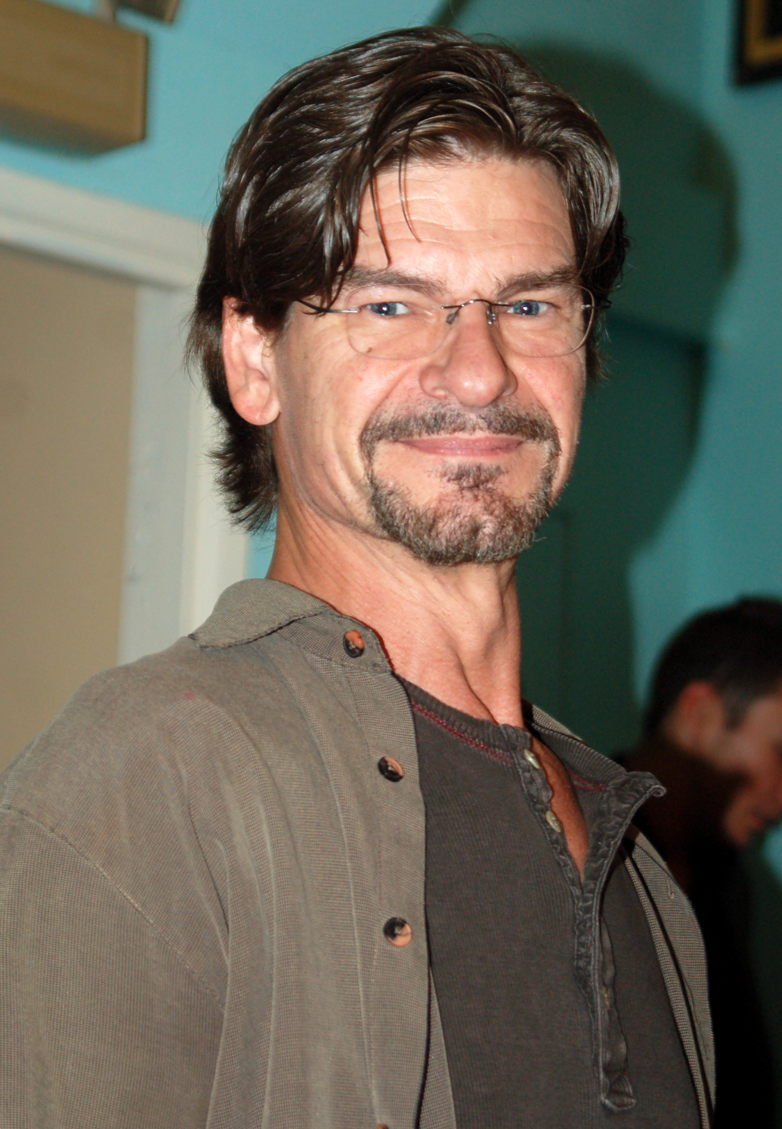 Don Swayze in the Green Room at the Marilyn Monroe Theatre after a performance of Barrymore.